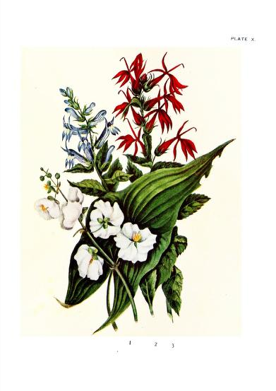 Illustration of Canadian Wildflowers by Agnew Dunbar Moodie Fitzgibbon